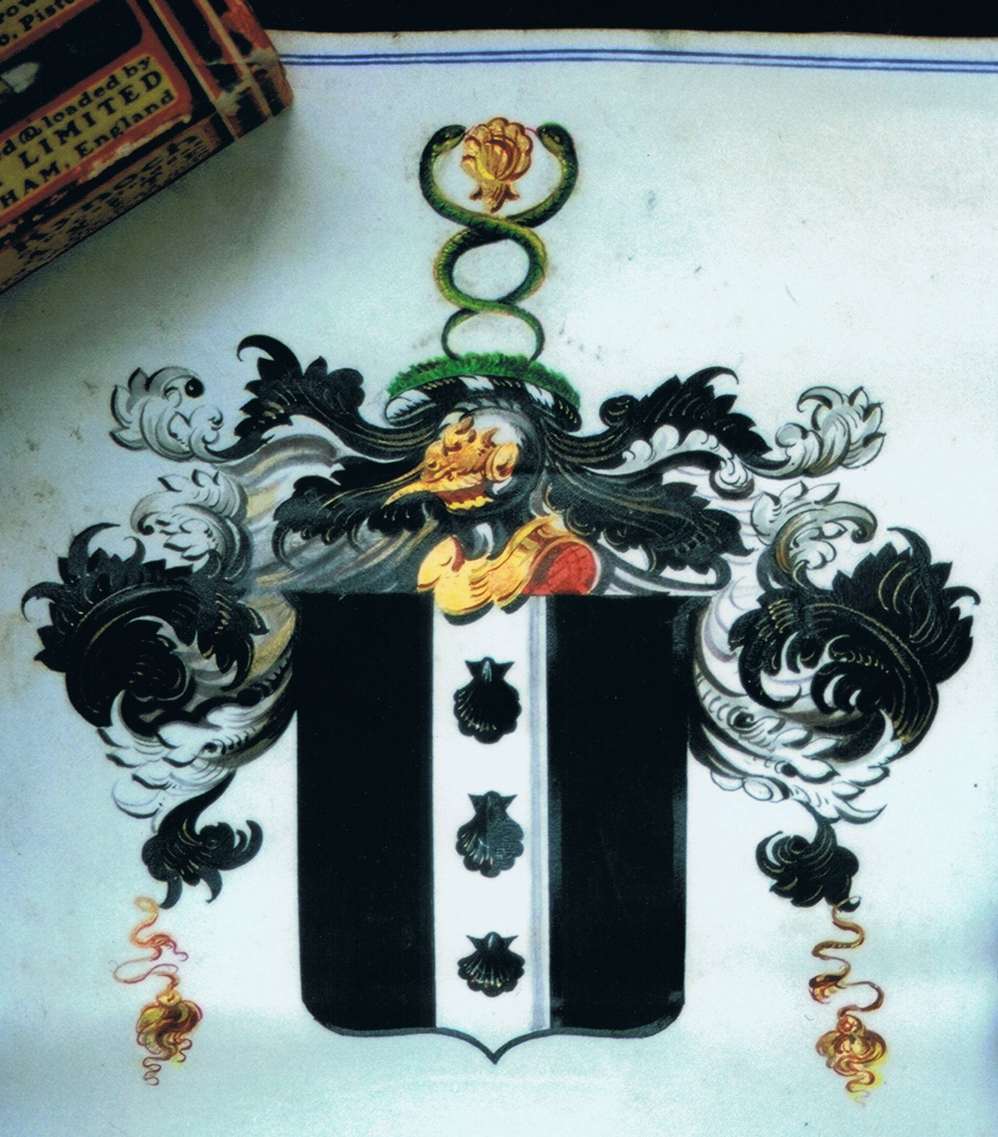 scan of photo (by R. de Salis, Spring 2006) of license/grant of use of Bisse arms to Col. Challoner, 28 December 1831.Rodolph (talk) 13:51, 14 January 2009 (UTC) Sable on a pale argent three escallops of the field and for the crest on a wreath of the colours on a mount vert two serpents entwined respecting each other proper the heads encircling an escallop inverted or.Rodolph (talk) 14:43, 14 January 2009 (UTC)